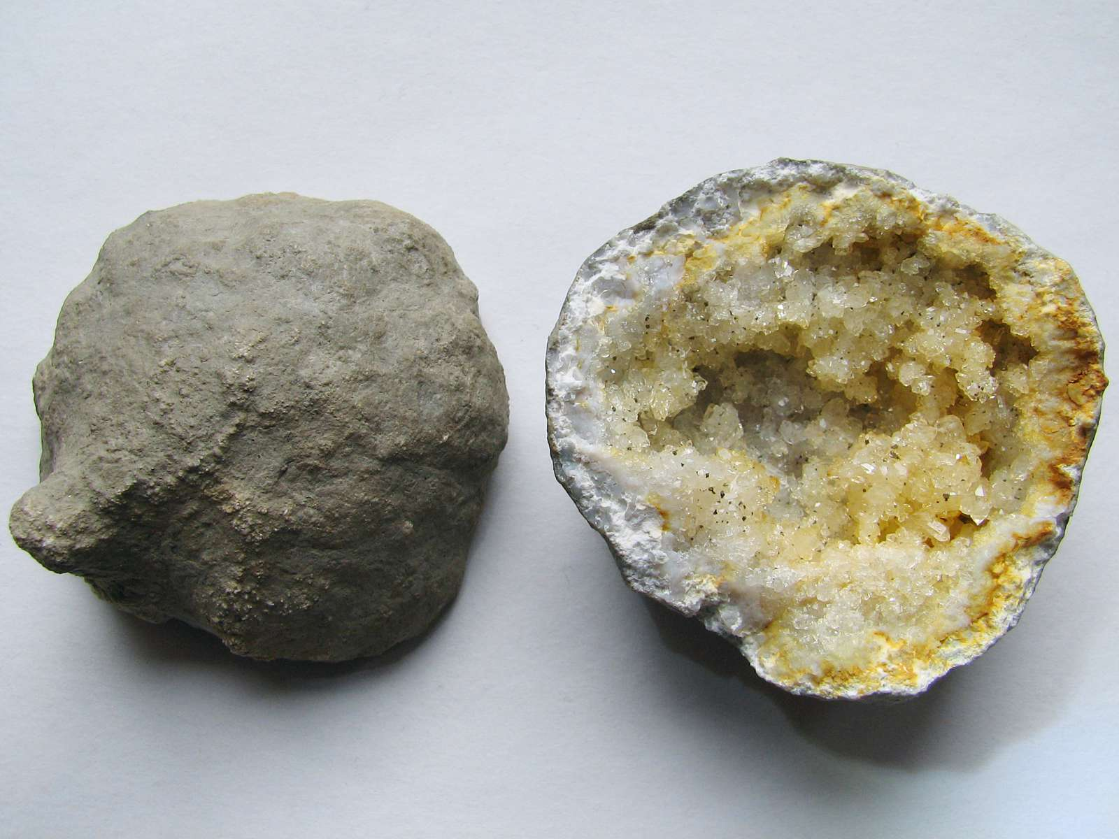 Geodes from Keokuk County are one of Iowa's official state symbols. This photo shows the exterior of one such geode on the left side, alongside the exposed interior cavity on the right side. The inside of these geodes can contain crystals of several minerals in various colors.